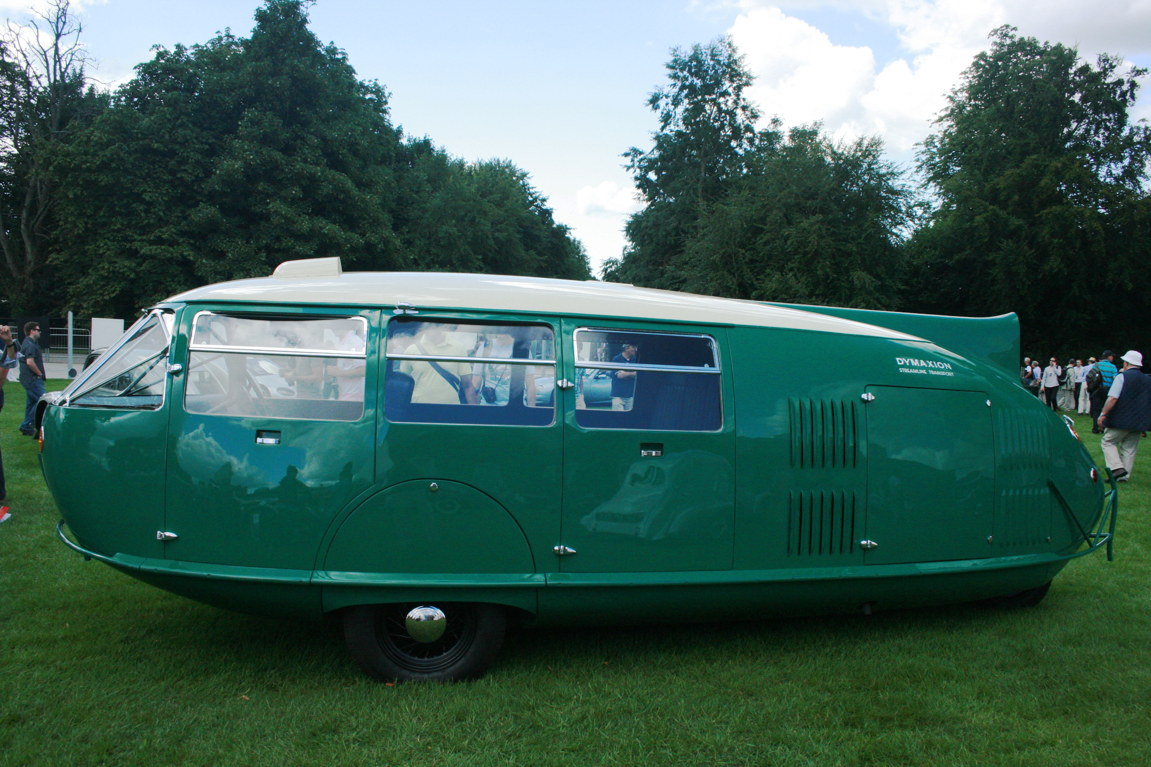 Type Dymaxion, 1933